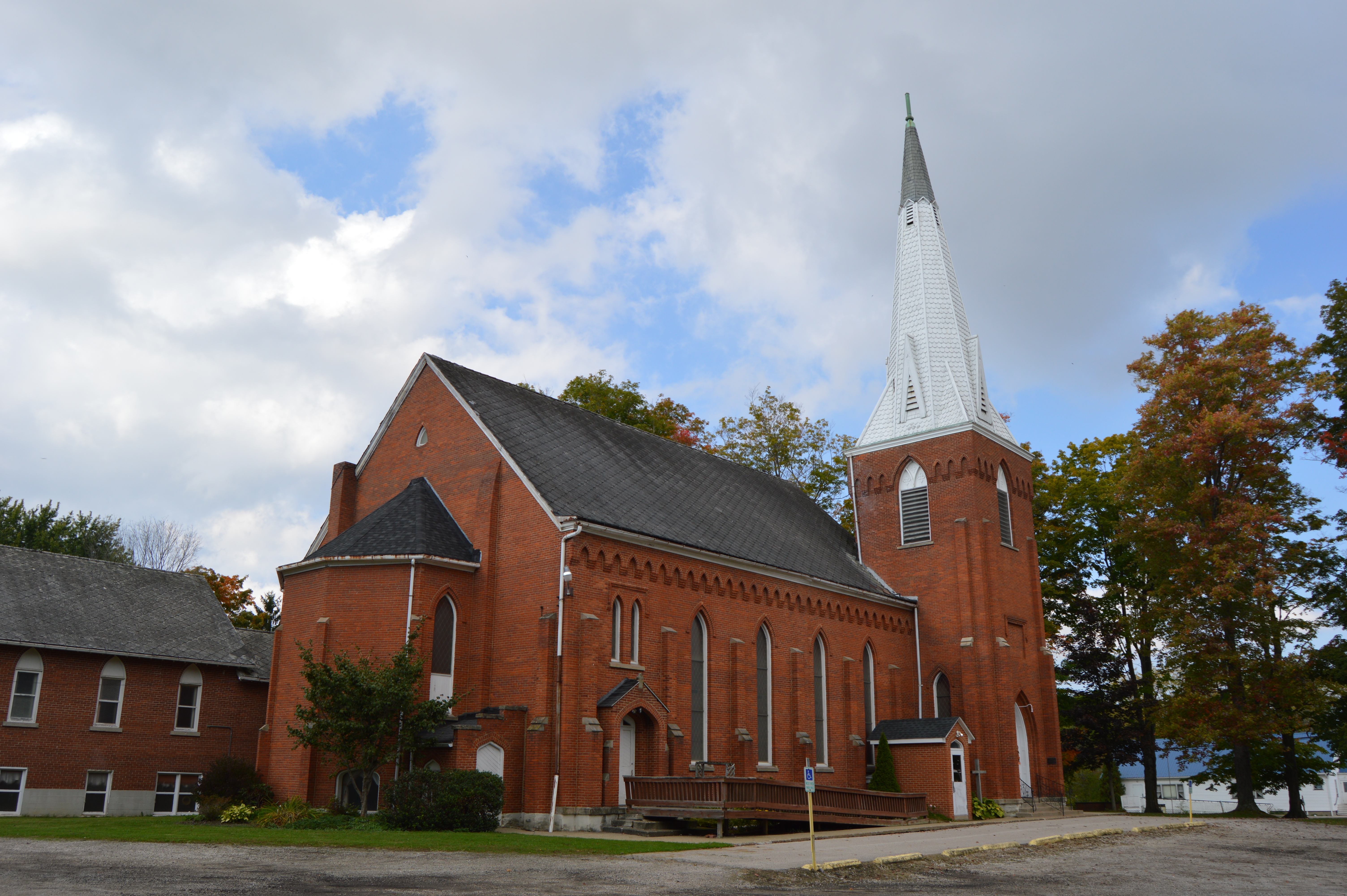 Rear and eastern side of the Congregational Church of Austinburg, located on the southern side of State Route 307 in Austinburg, Ohio, United States. Built in 1877, it is listed on the National Register of Historic Places.